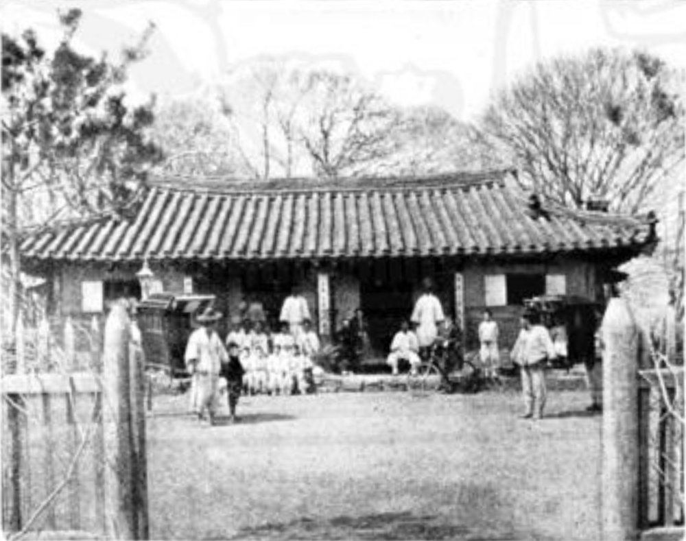 Church building constructed at Sorae, Korea (now Ryongyon County, South Hwanghae Province, North Korea) in 1895 by Korean Christians.